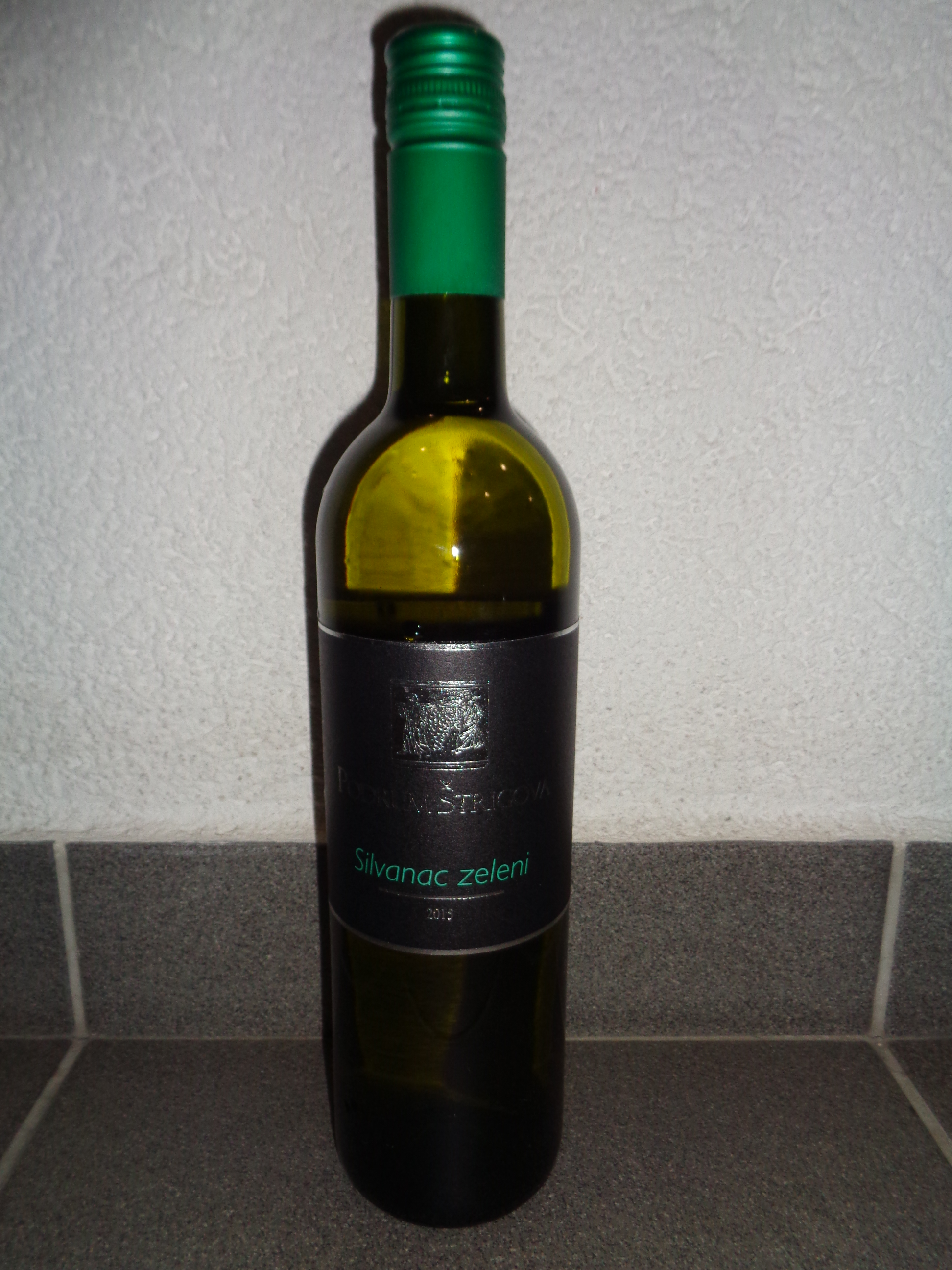 A bottle of Green Silvaner wine from Medjimurie wine growing subregion, northern Croatia